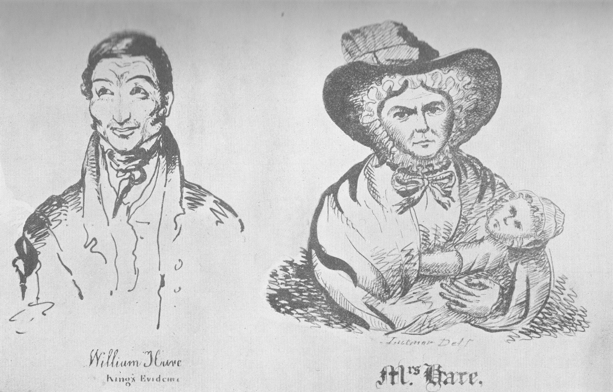 William Hare and Mrs Hare at the trial of Burke and McDougal for the West Port Murders, 1828